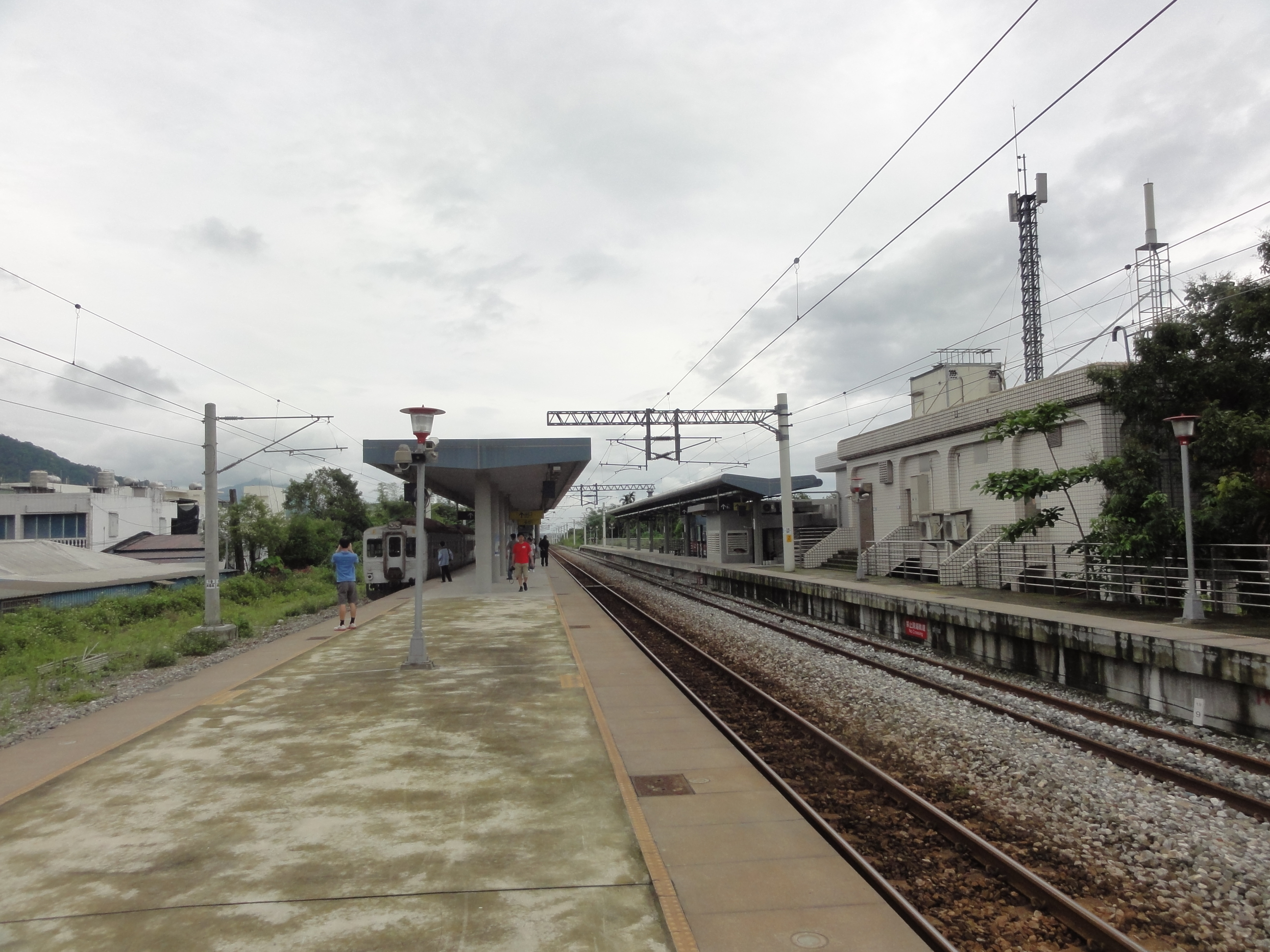 Taiwan Railway Administration FongTian Station platform